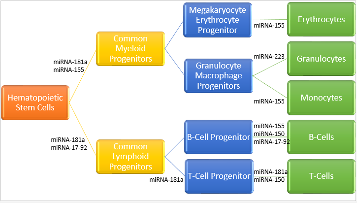 miRNA involved in the creation of specific cells involved with the immune system